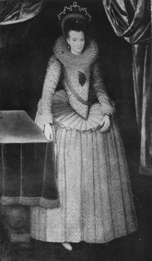 Dorothy, Lady Stafford (* um 1530; † nach 1603) was a Mistress of the Robes to Elizabeth I. of England.